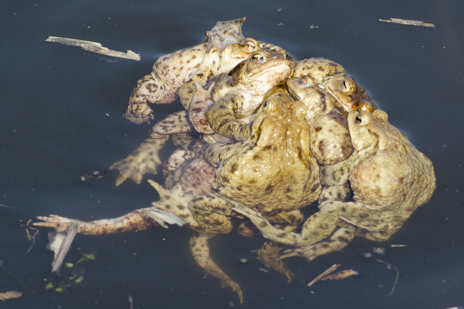 Common toad Bufo bufo mating ball (multiple amplexus). Łacha Koło (Łacha Las), Zakole Wawerskie, Wawer, Warsaw, Poland.